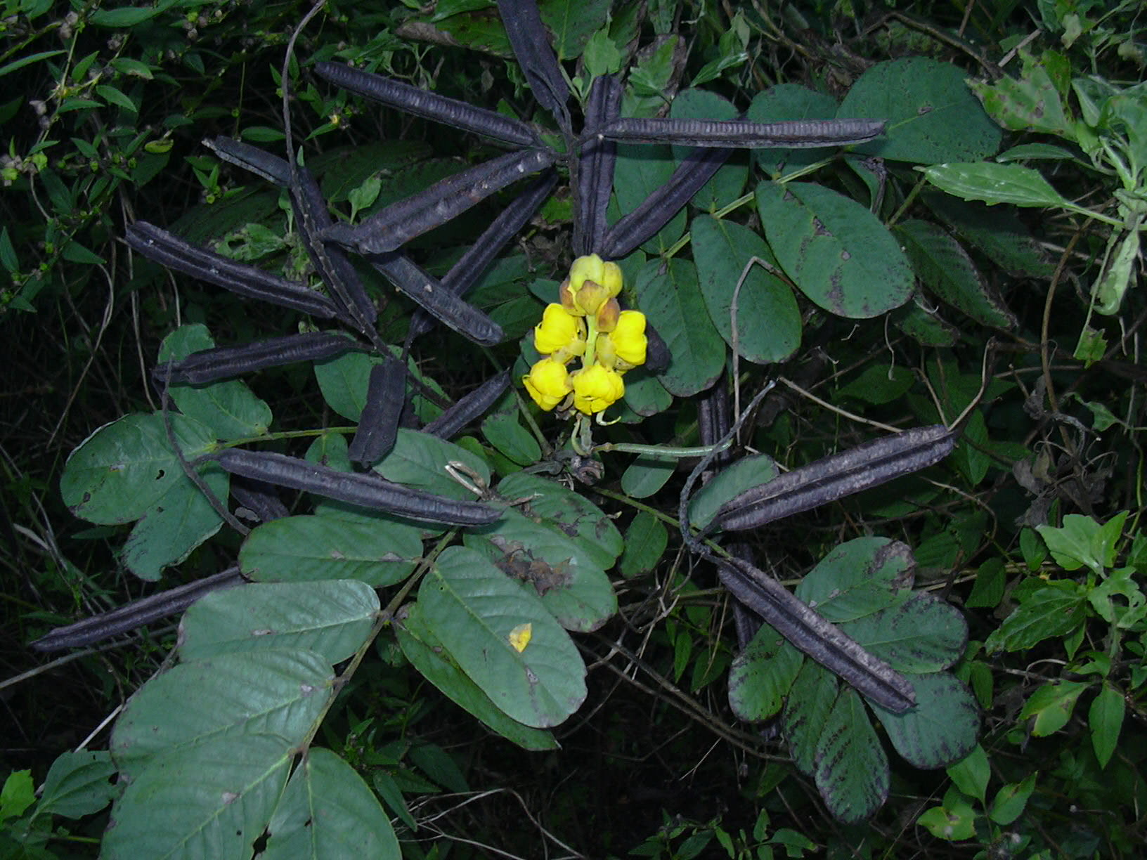 Senna alata (flower leaves fruit). Location: Florida, Tree Top Park